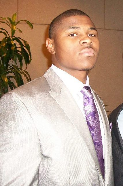 Close up of OLB Khalil Mack of the State University of New York at Buffalo